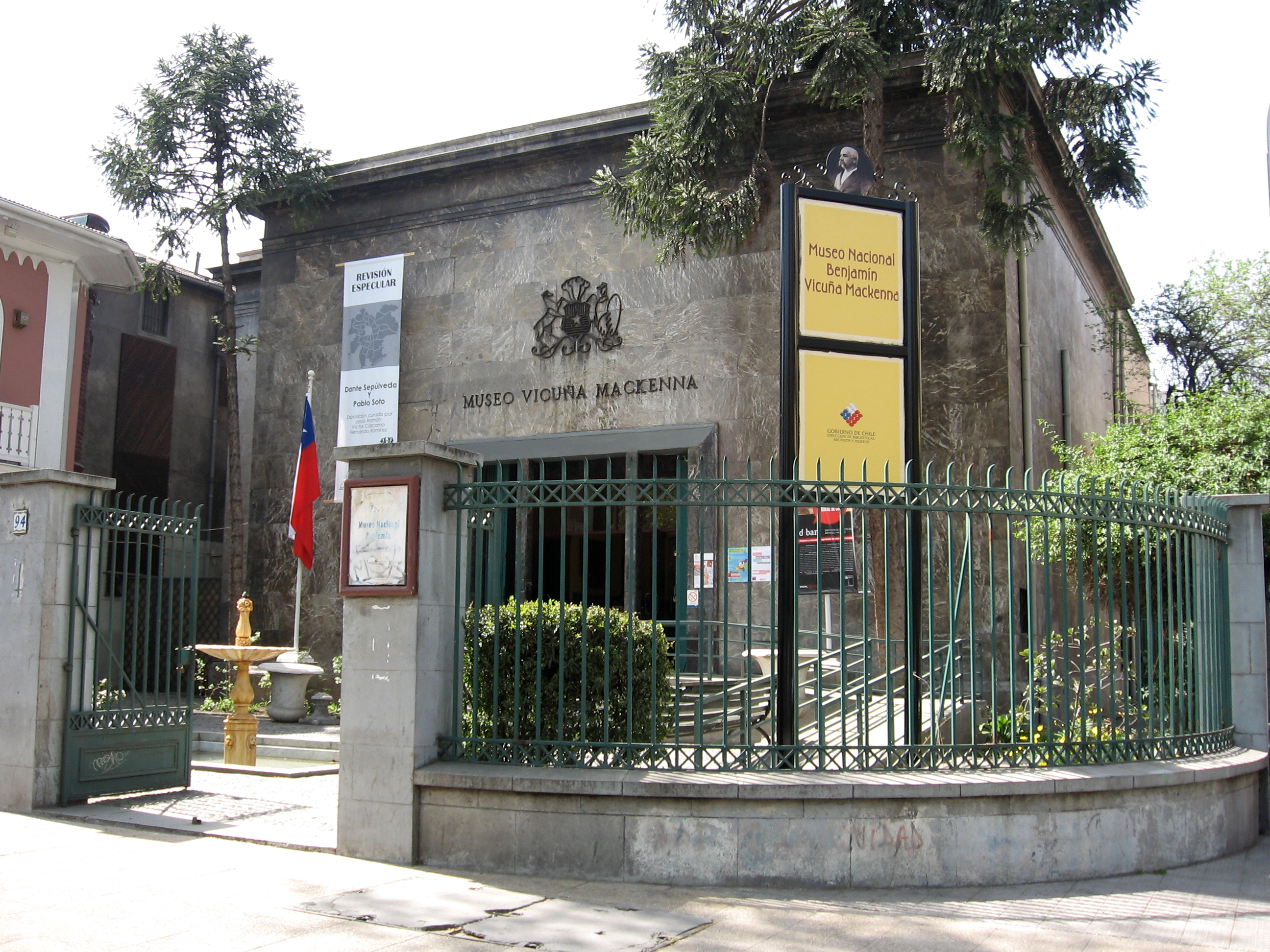 This is a photo of a national monument in Chile: 887